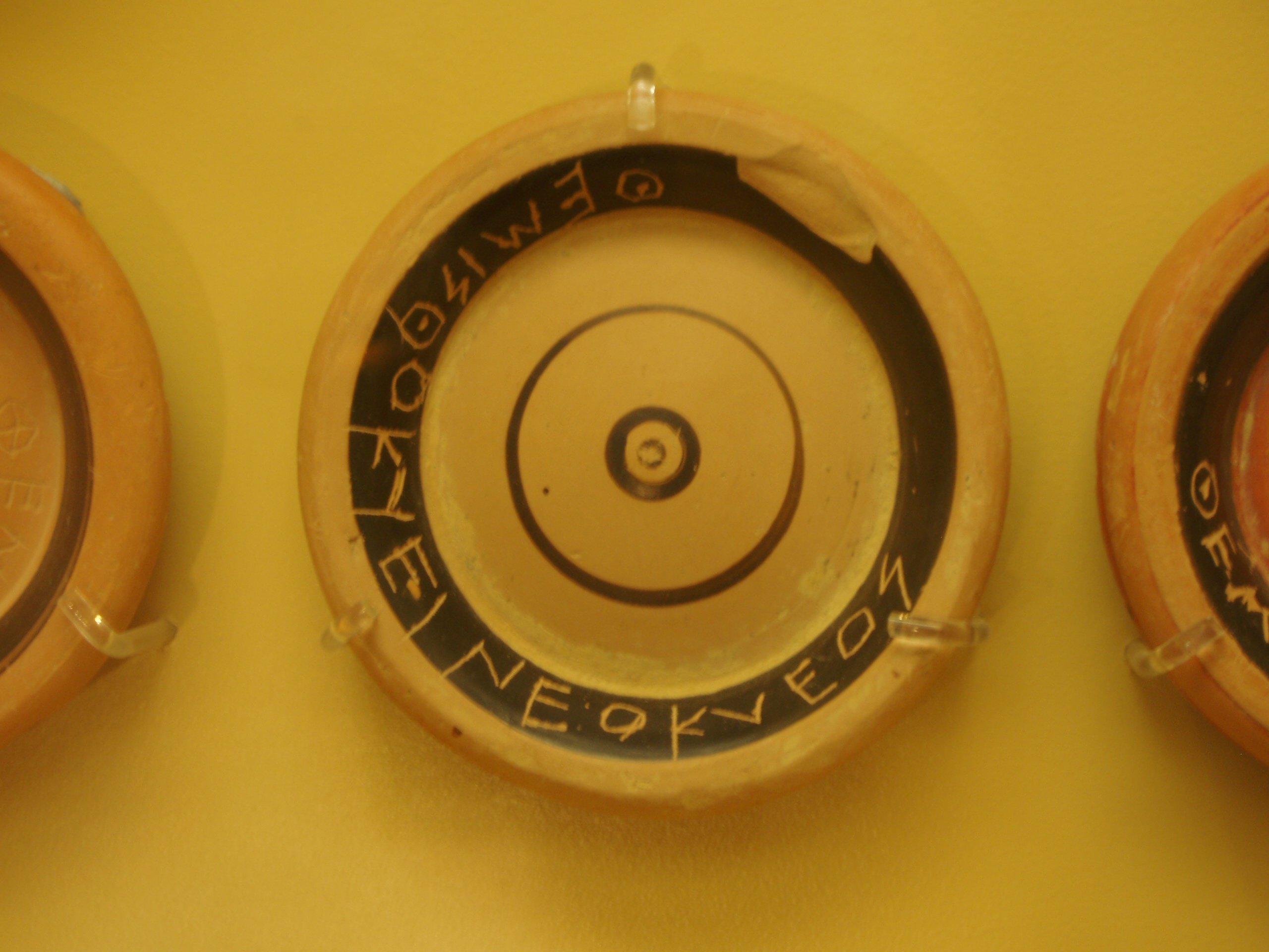 This ostrakon from 482 BC was recovered from a well near the Acropolis. The Athenians had a particular voting technique to remove a citizen from the community. If ostracized, the person was exiled for ten years, and after that time could return and have their property restored. Themistocles was a great Athenian general, but the Spartans worked to have him exiled. After his ostracism, he moved to Persia, Athen's enemy, where King Artaxerxes I made him governor of Magnesia. Ancient Agora Museum in Athens.